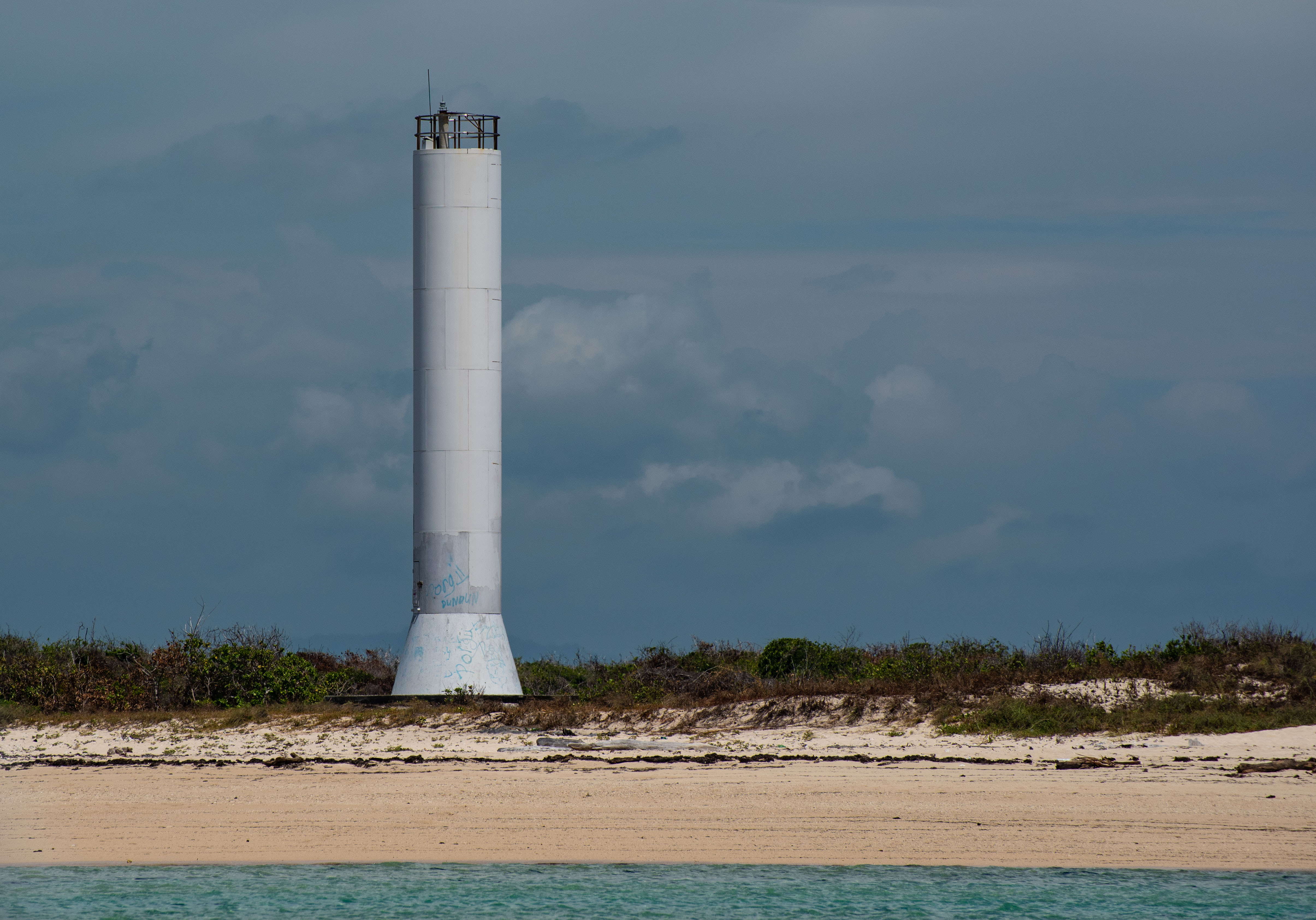 Photograph of the lighthouse at Idihi Island, Papua New Guinea